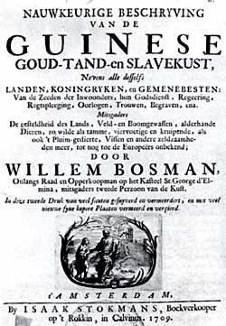 Book of Willem Bosman 1704